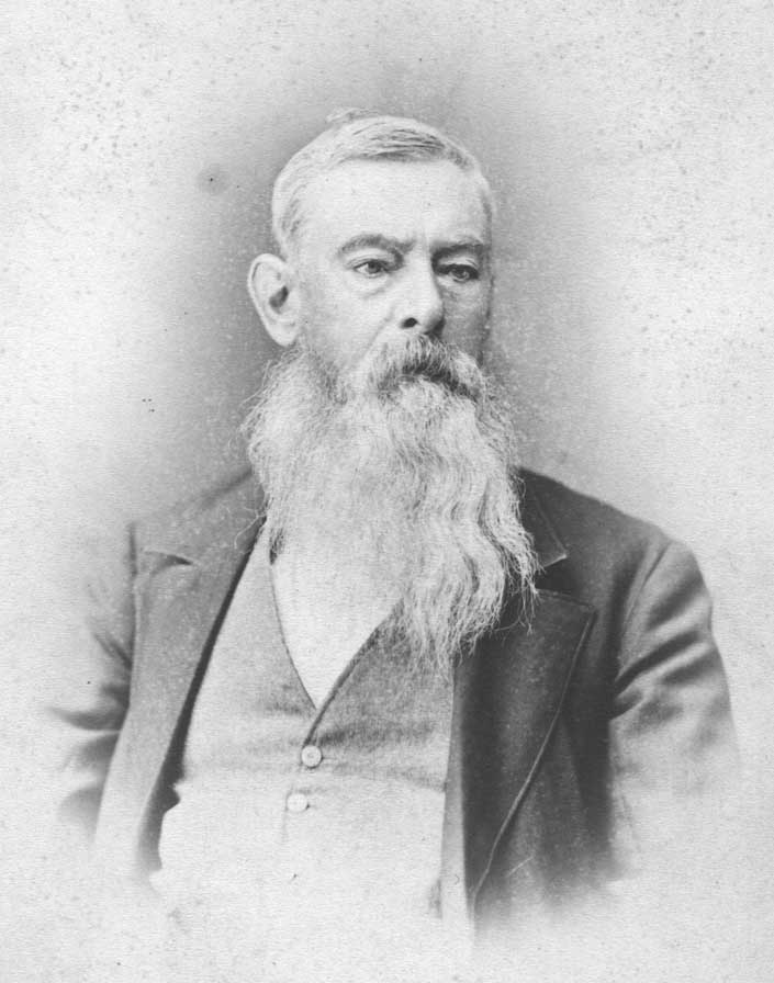 Official portrait of State President J.H. Brand of the Orange Free State, in office 1864-1888